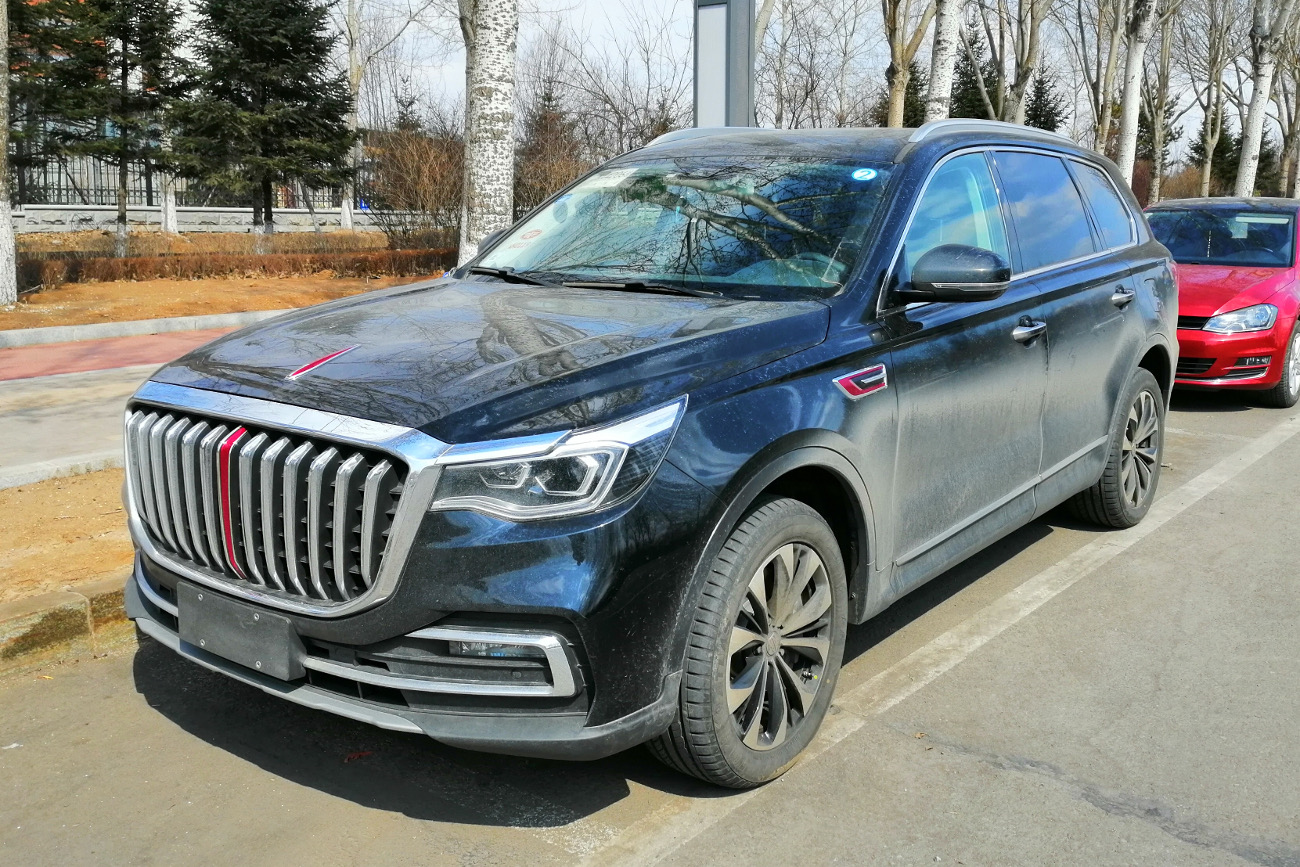 Hongqi HS7 photographed in Changchun, Jilin province, China.